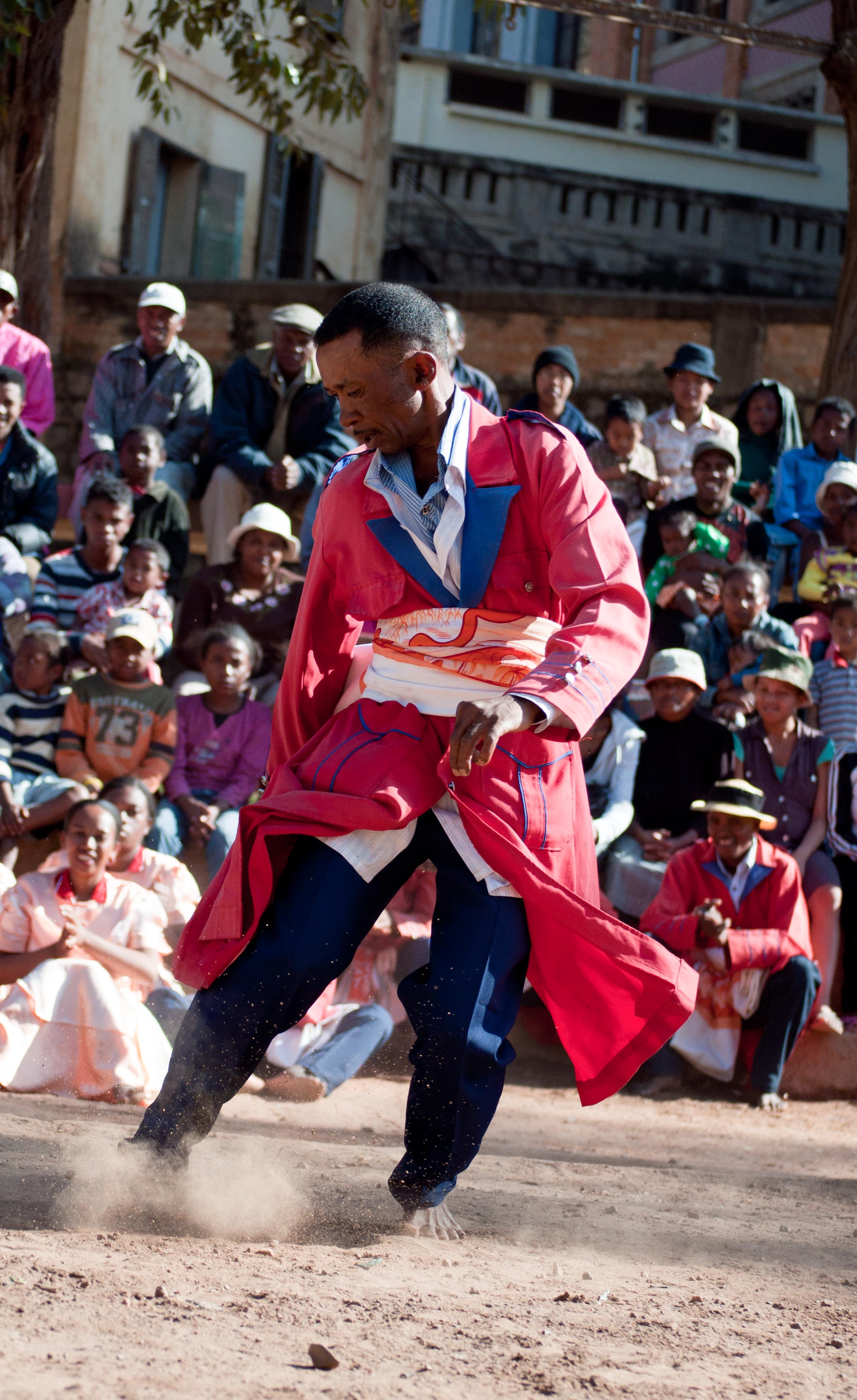 Dancer at a hira gasy in Madagascar